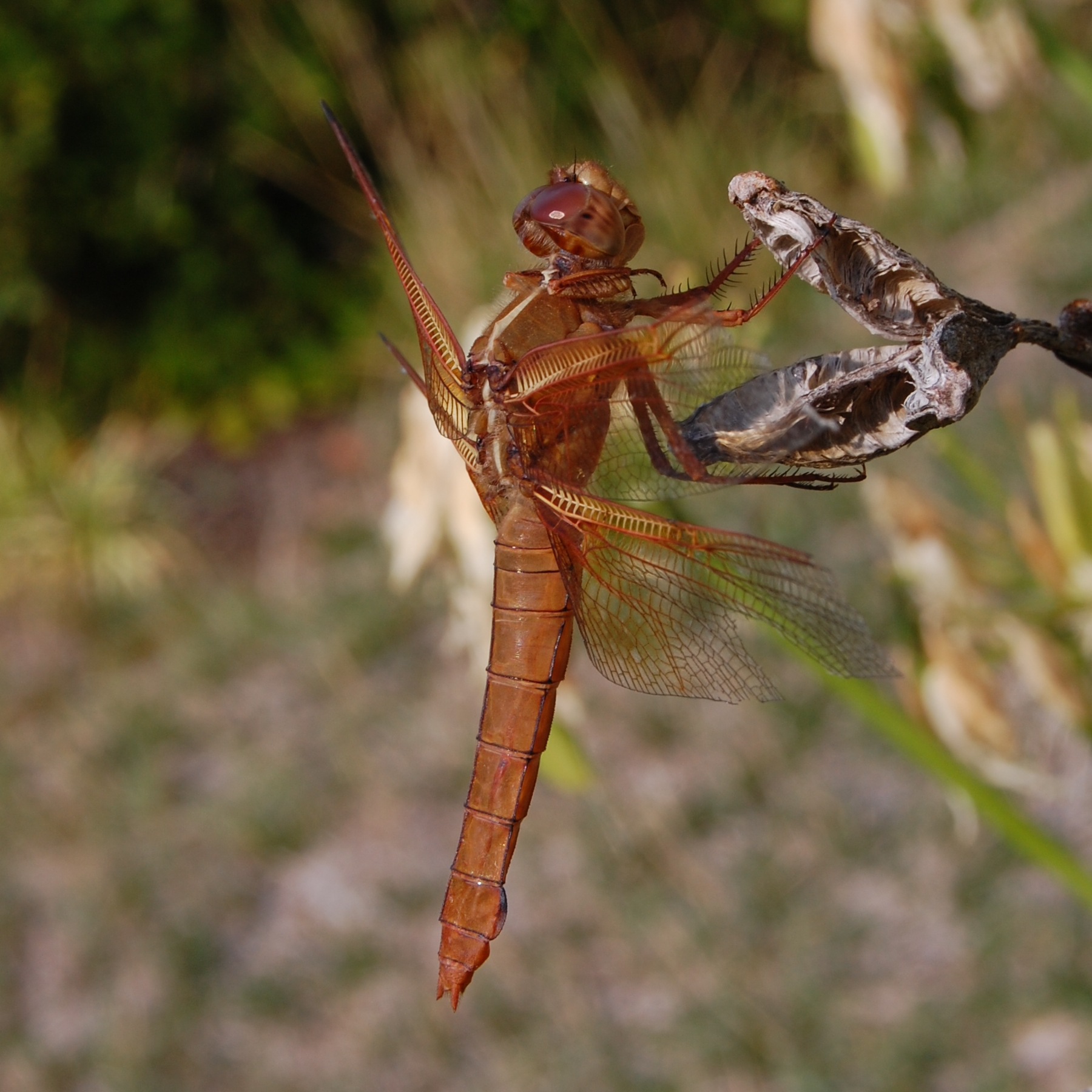 Flame Skimmer. Female